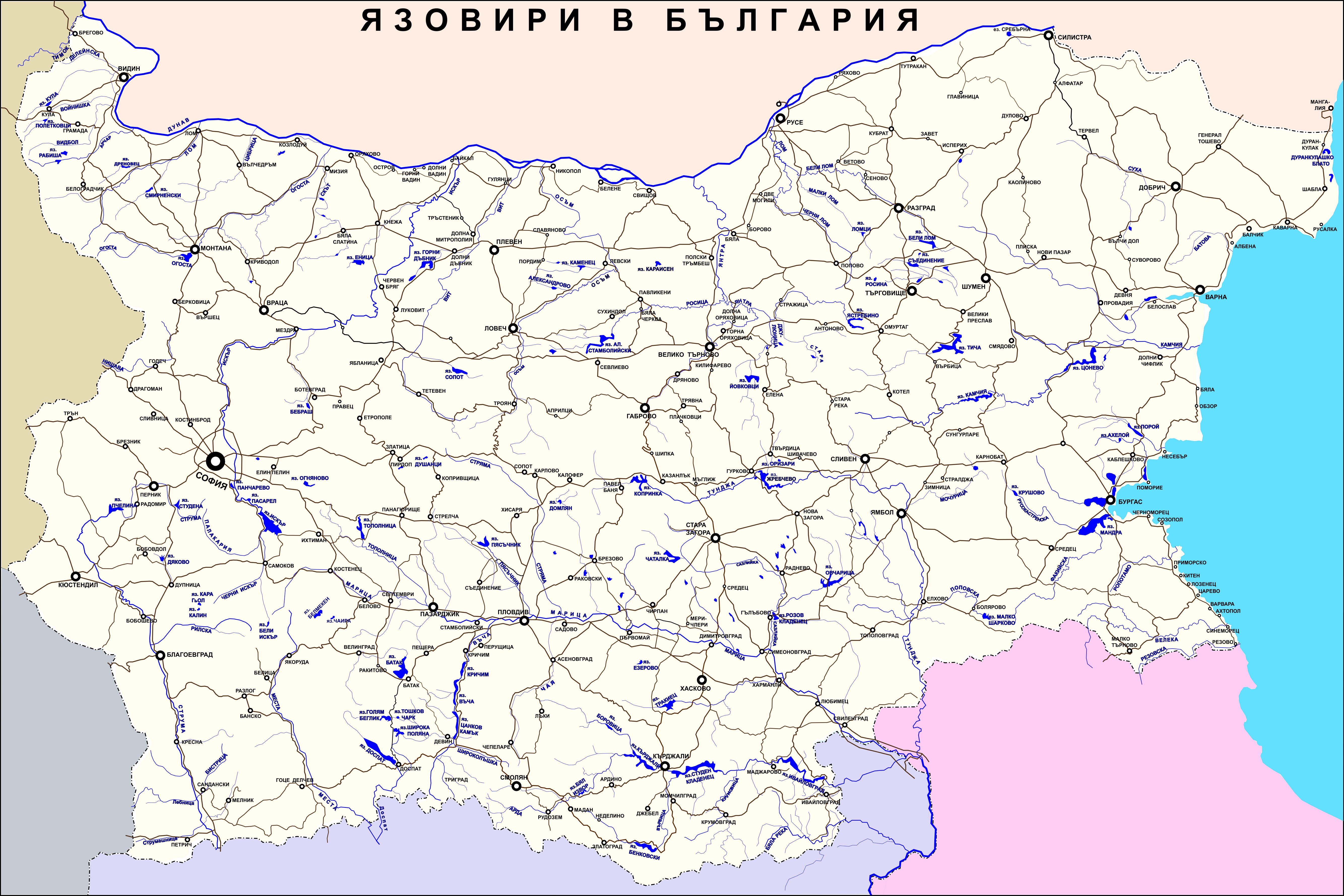 Map of more than 50 water reservoirs in Bulgaria, plus road network and some of the more significant cities.